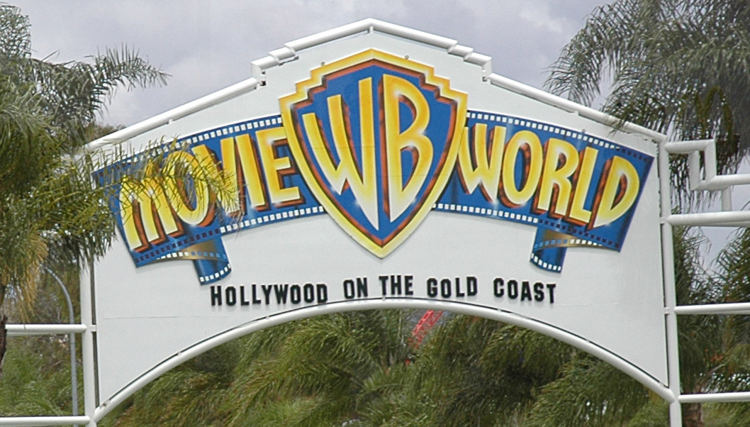 One of the entrances to Warner Bros Movie World